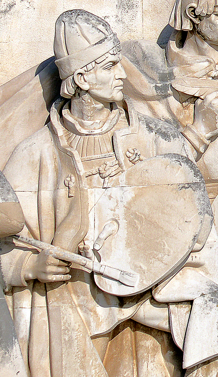 Statue of painter Nuno Gonçalves (c. 1425 - c. 1491), in the Padrão dos Descobrimentos (Monument to the Discoveries), Lisbon, Portugal.